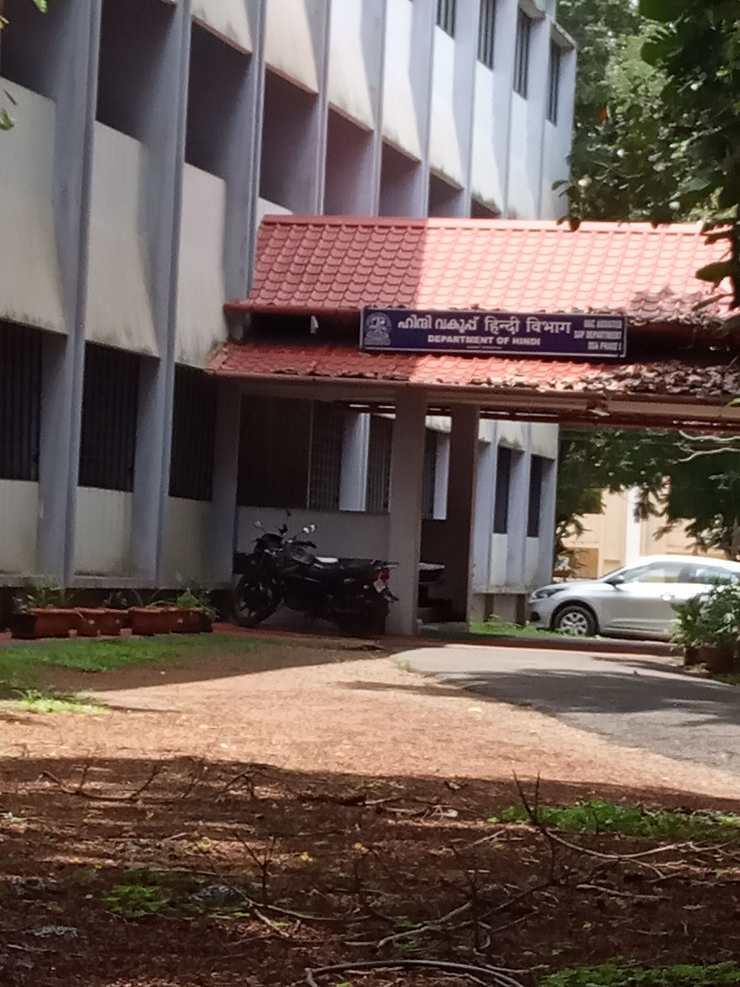 PLACE TO TEACH HINDI IN CAMPUS